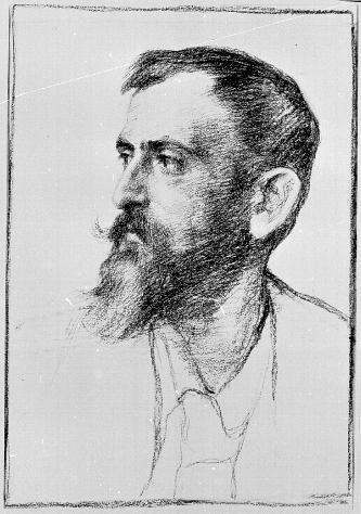 Likeness of Otto Ubbelohde, chalk (1867-1922)